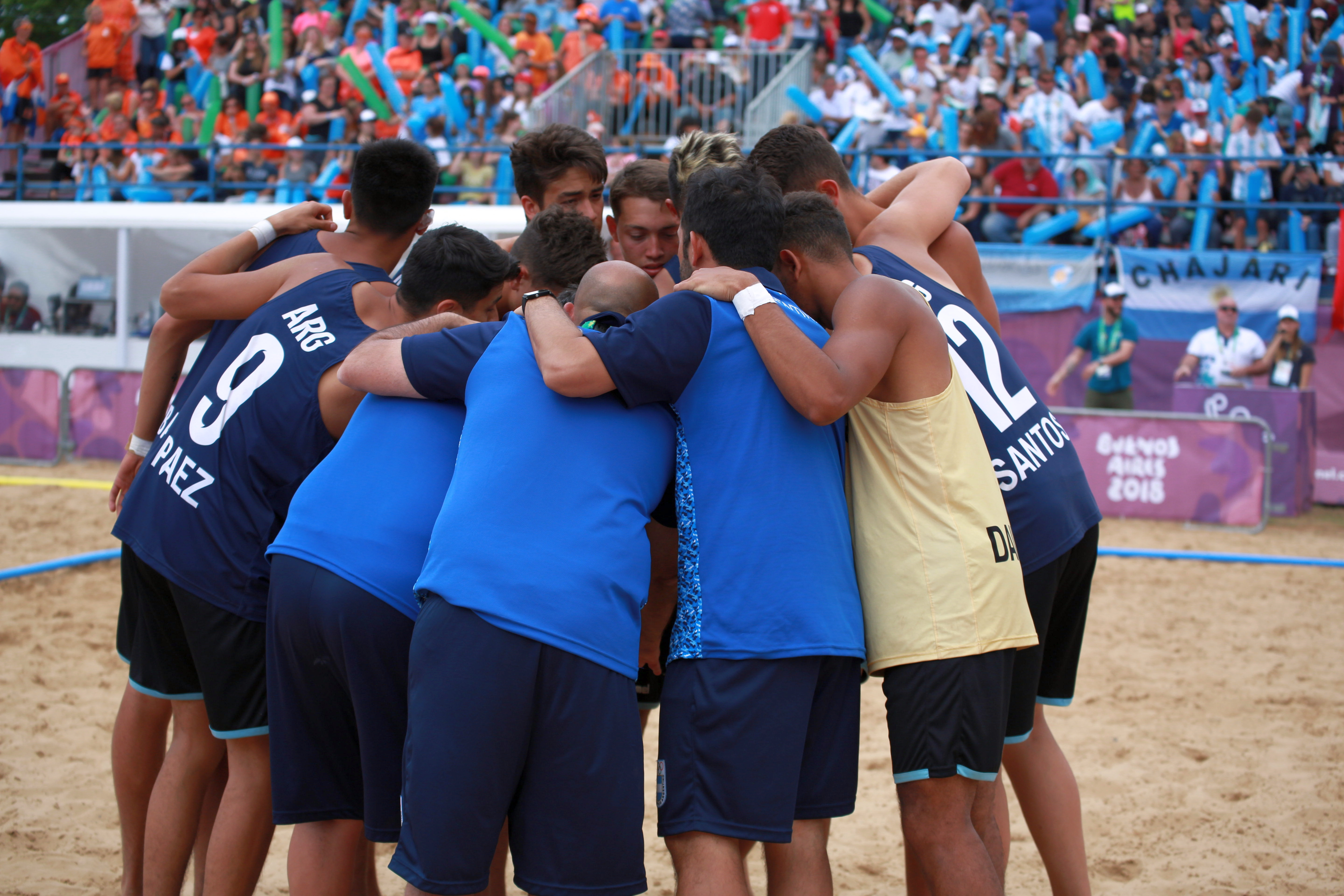 Beach handball at the 2018 Summer Youth Olympics at 13 October 2018 – Boys Bronze Medal Match – Argentina-Croatia 2:0